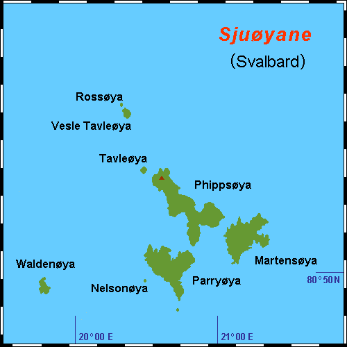 Map Sjuøyane (rough), Svalbard, Norway, own work composed from various mapreferences